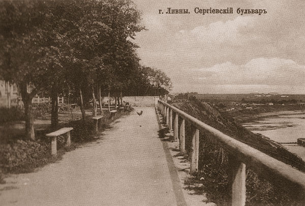 Old_Livny